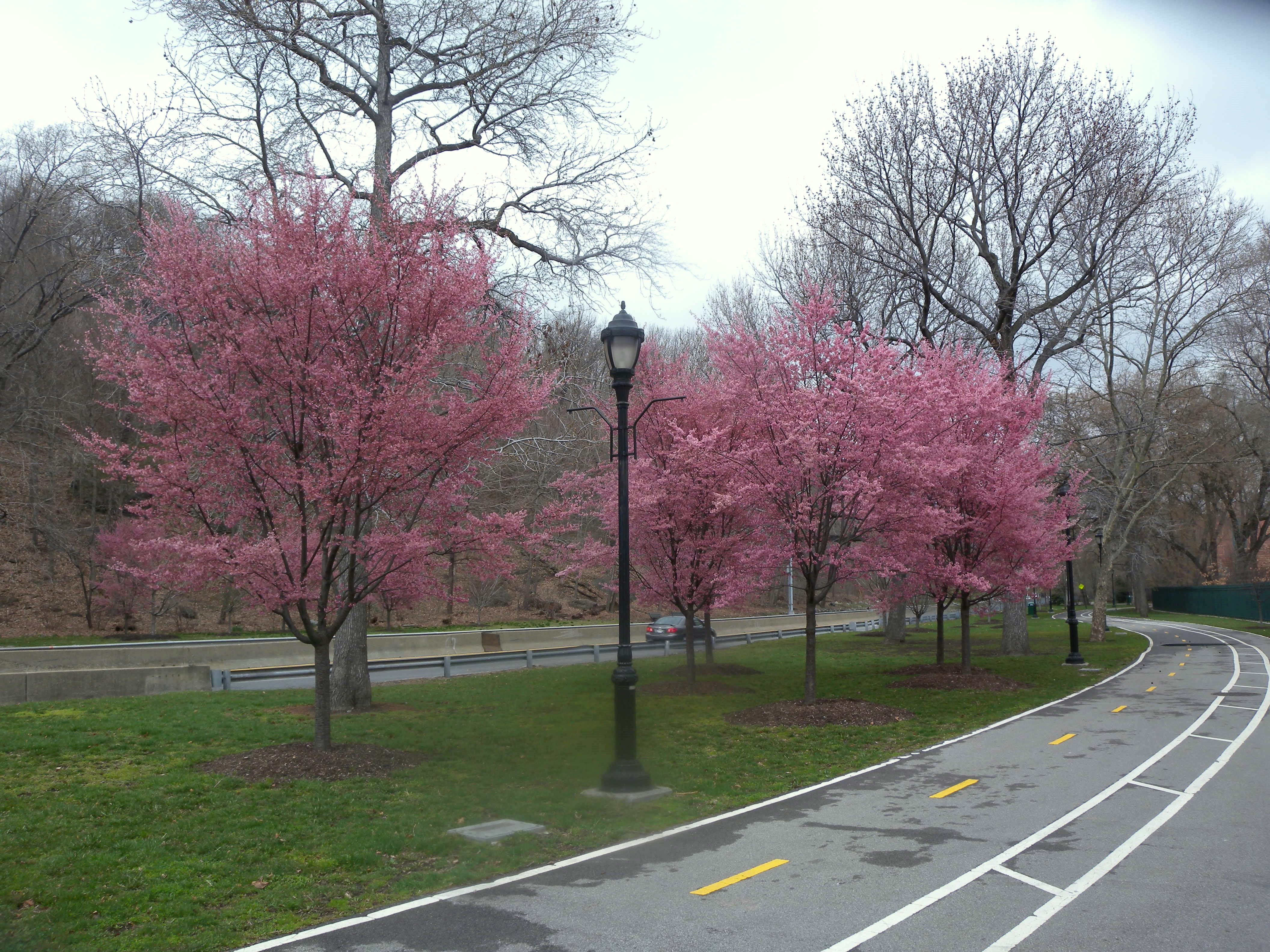 Looking north across highway entrance, at blooming cherries in Swindlers Cove area, from northern Harlem River Greenway, on a cloudy midday.